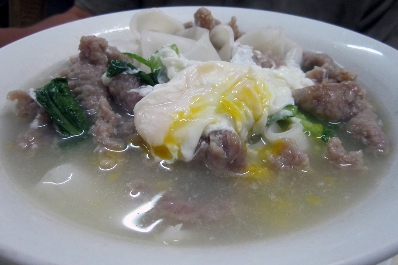 Kyay oh at Yangon's YKKO မြန်မာဘာသာ: ရန်ကုန်မြို့ရှိ YKKO ကြေးအိုး